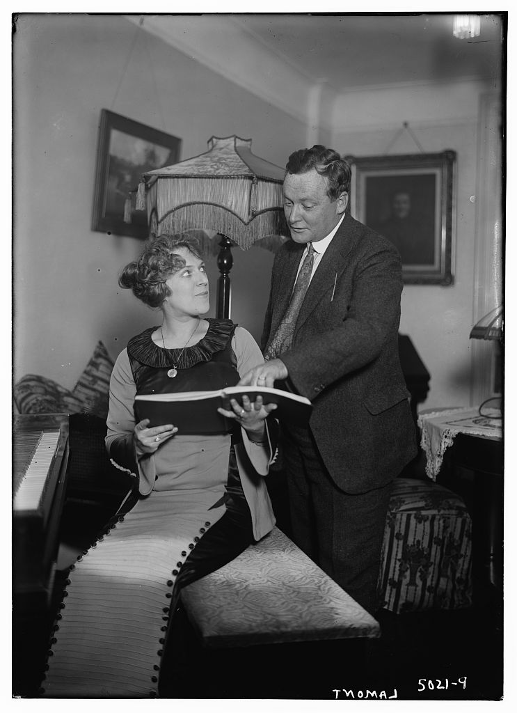 Forrest Lamont in 1919